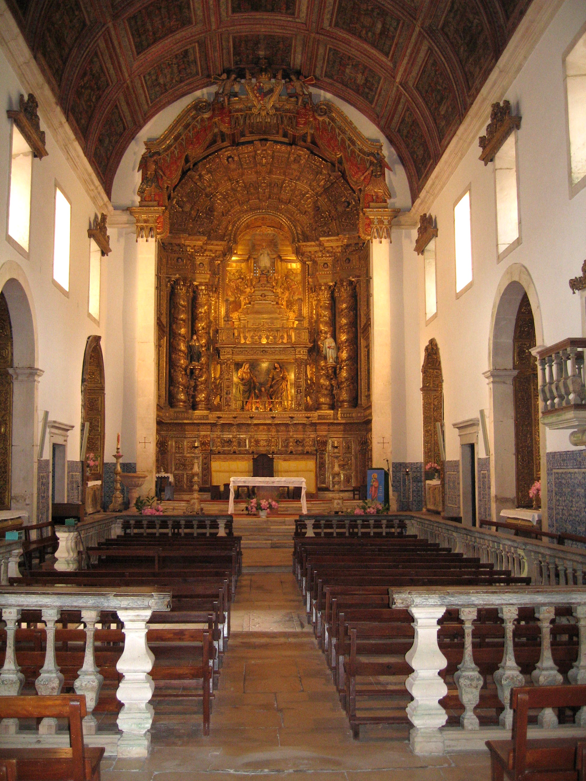 Alcobaça, Portugal, Monastery of Cos, Church, altar, 17th and 18th century